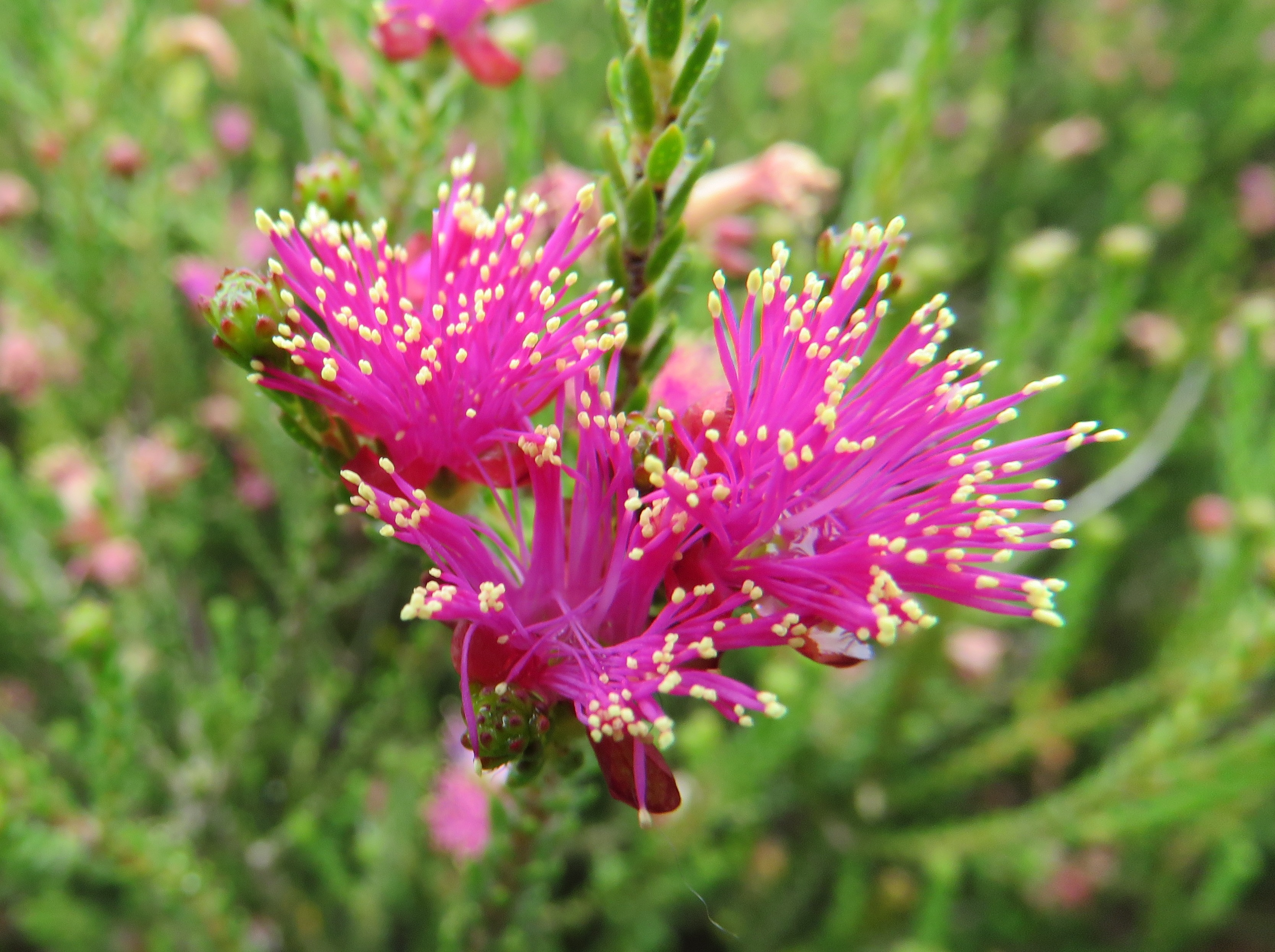 Eremaea fimbriata (cultivated, labelled), Royal Botanic Gardens Cranbourne, Victoria, Australia